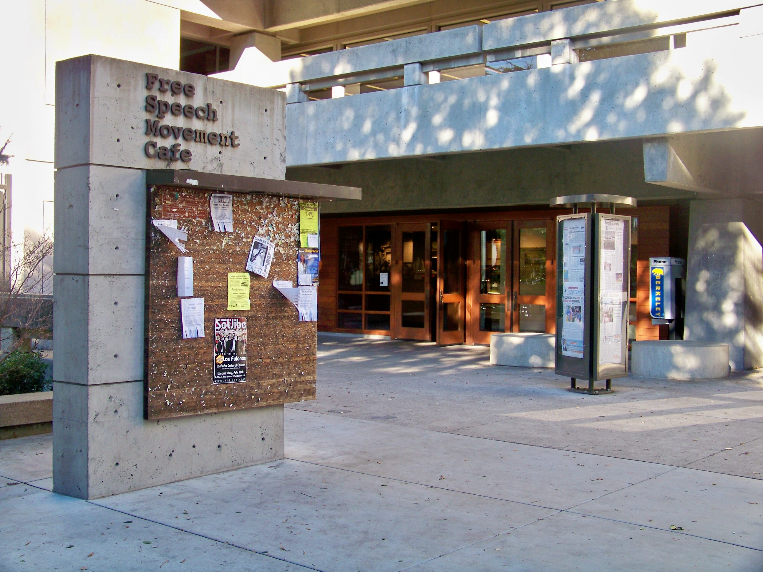 Marker for the Free Speech Cafe at UC Berkeley